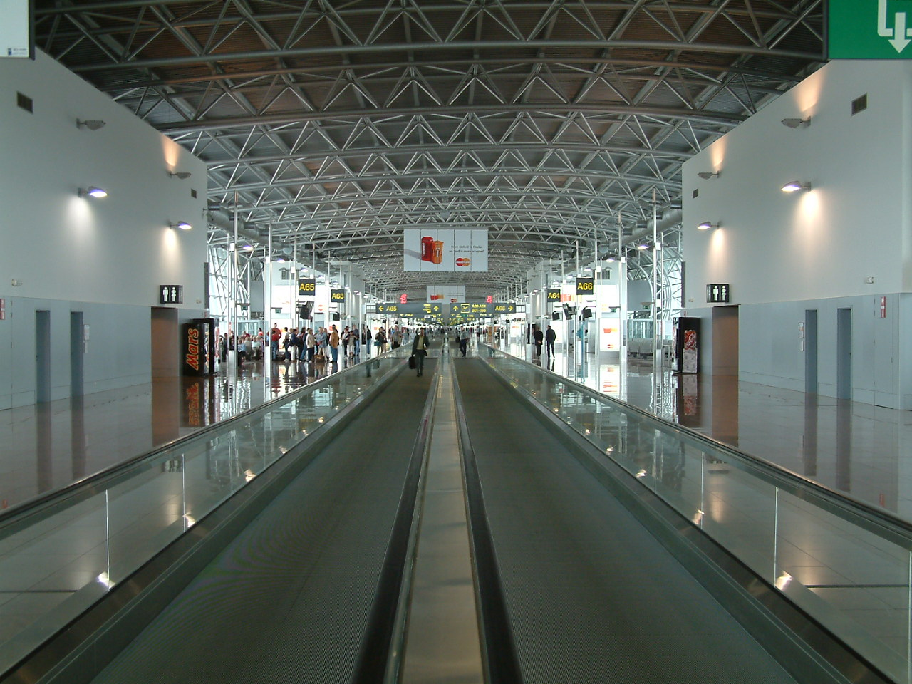 Brussels National Airport Terminal A